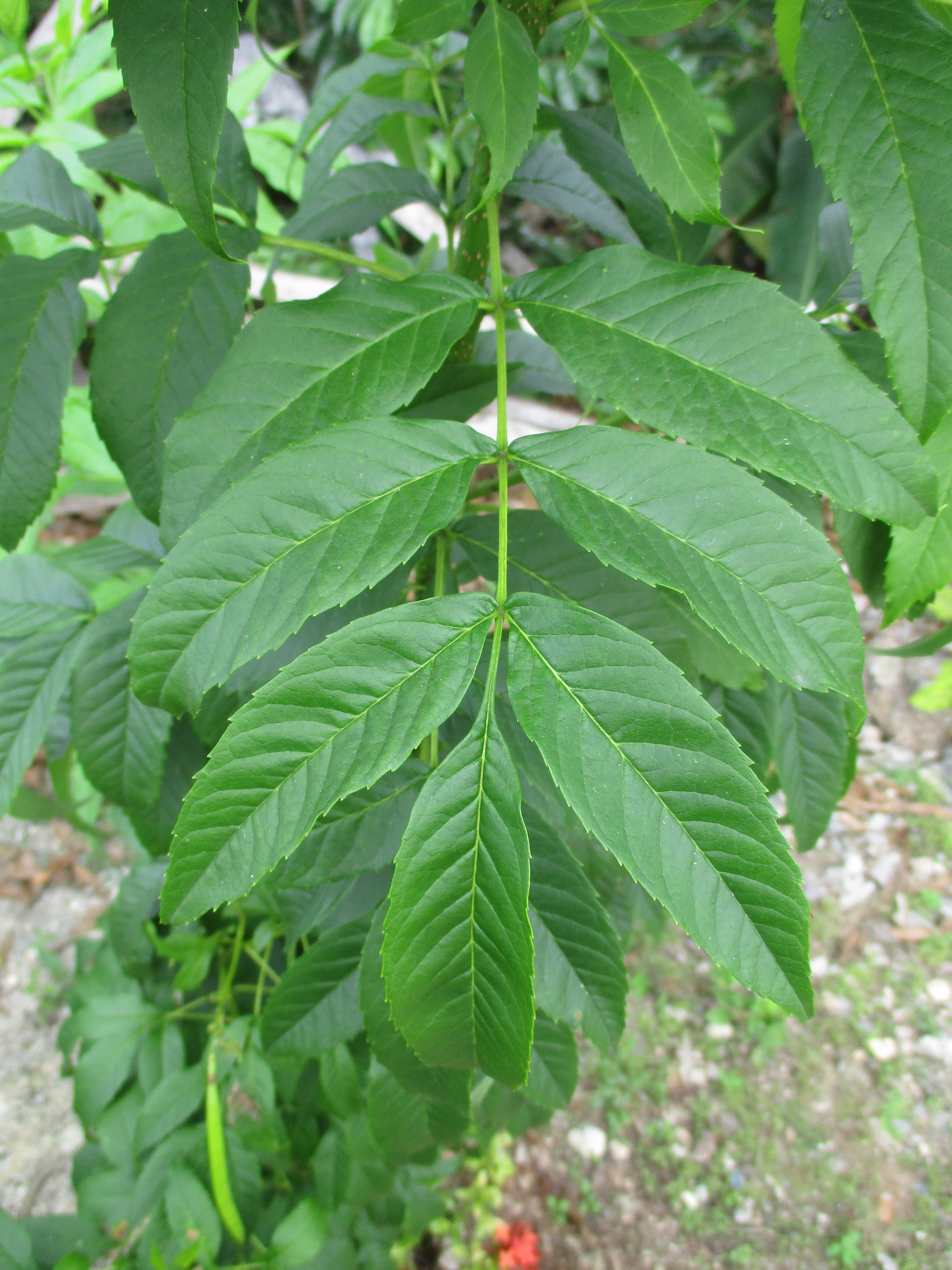 Compound leaf of the yellow trumpetbush (Tecoma stans), cultivated as an ornamental in northern Buton Island, Southeast Sulawesi, Indonesia